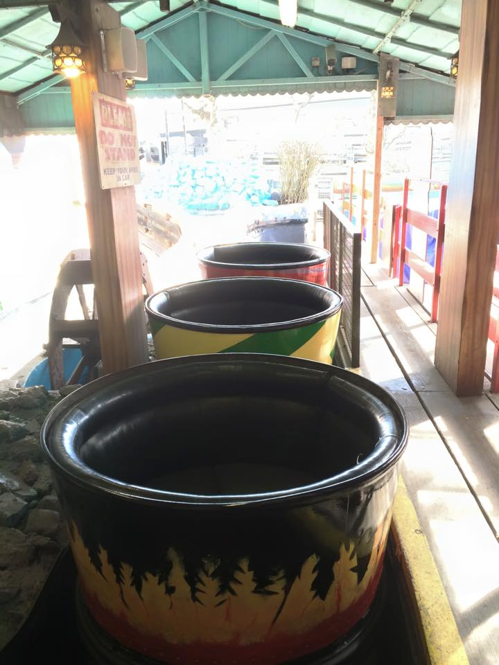 Joyland Great Yarmouth's Tyrolean Tubs